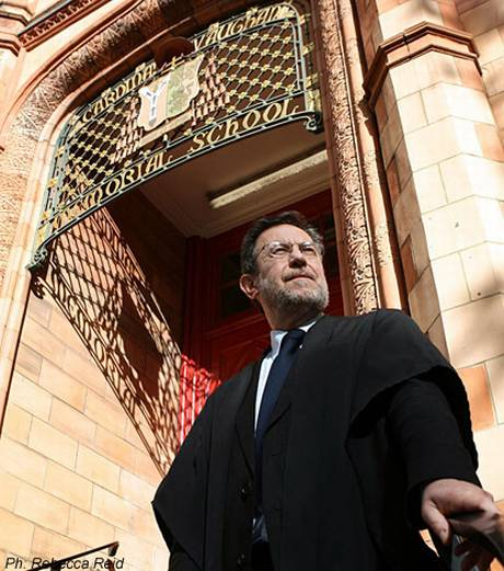 Academic Dress at The Cardinal Vaughan Memorial School